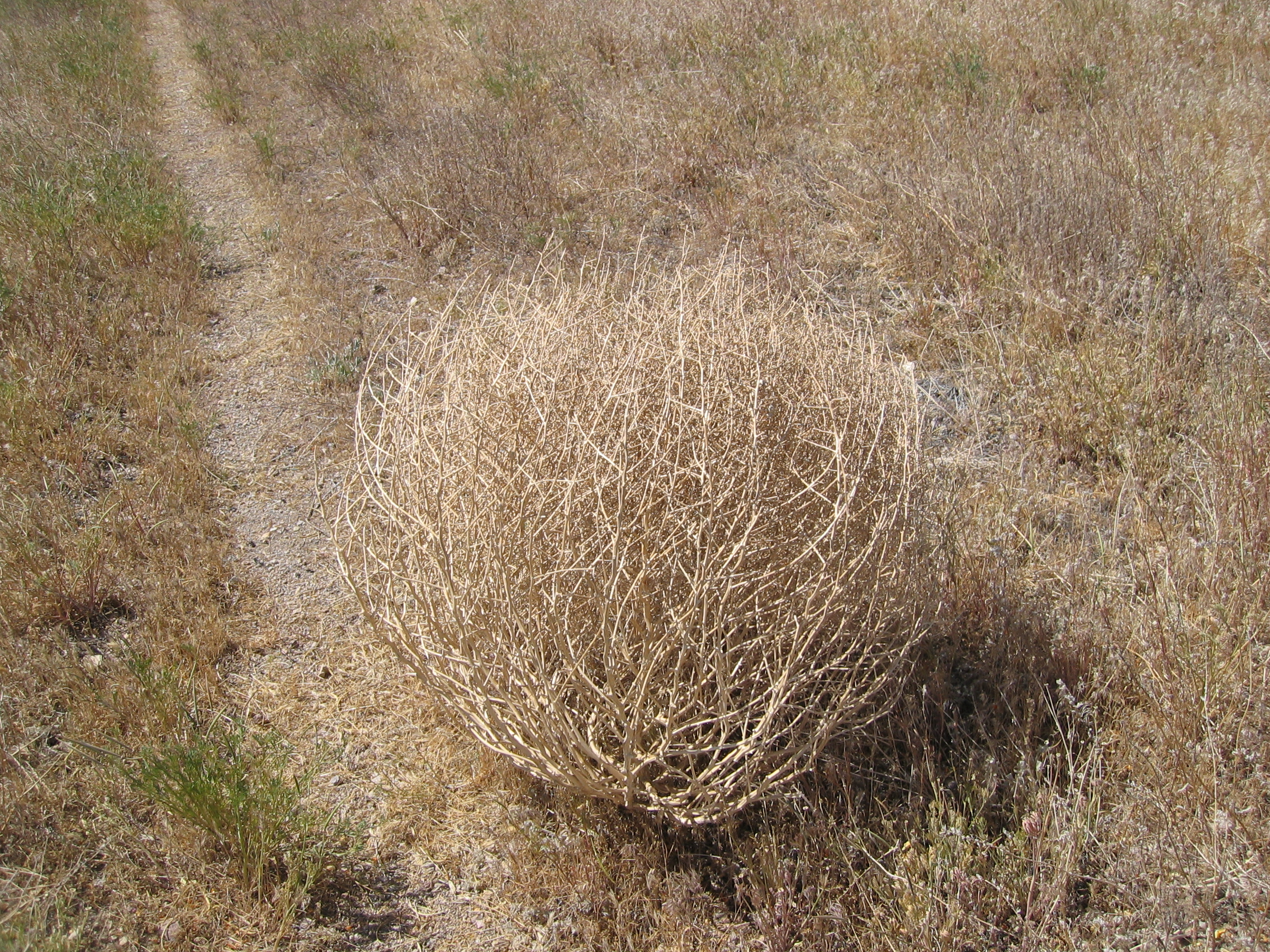 Tumbleweed, Kali tragus (Syn. Salsola tragus)